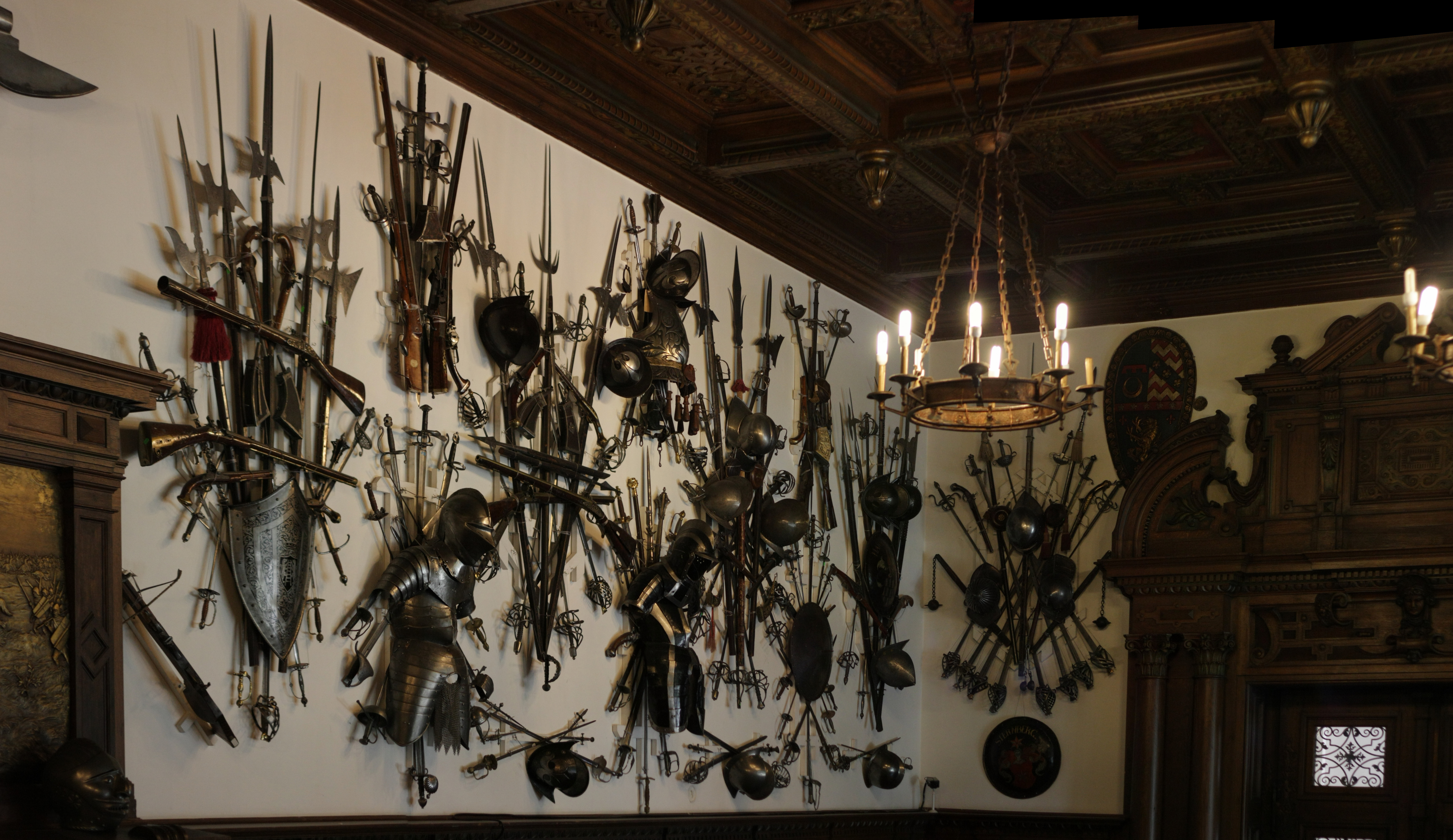 Weapon collection in Peles castle, Romania.